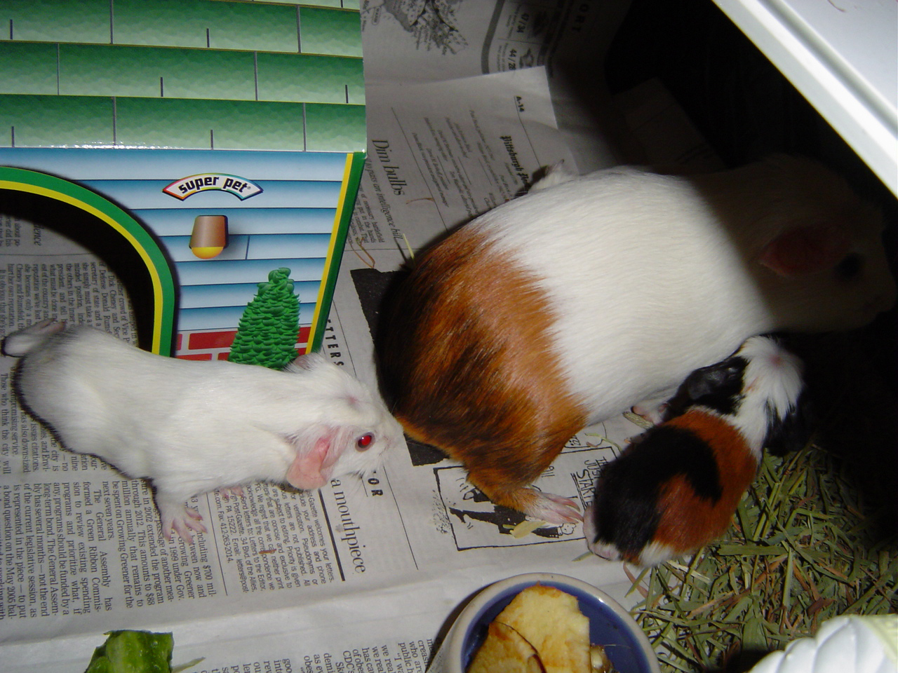 Guinea pig pups can walk soon after birth and run within a few hours.